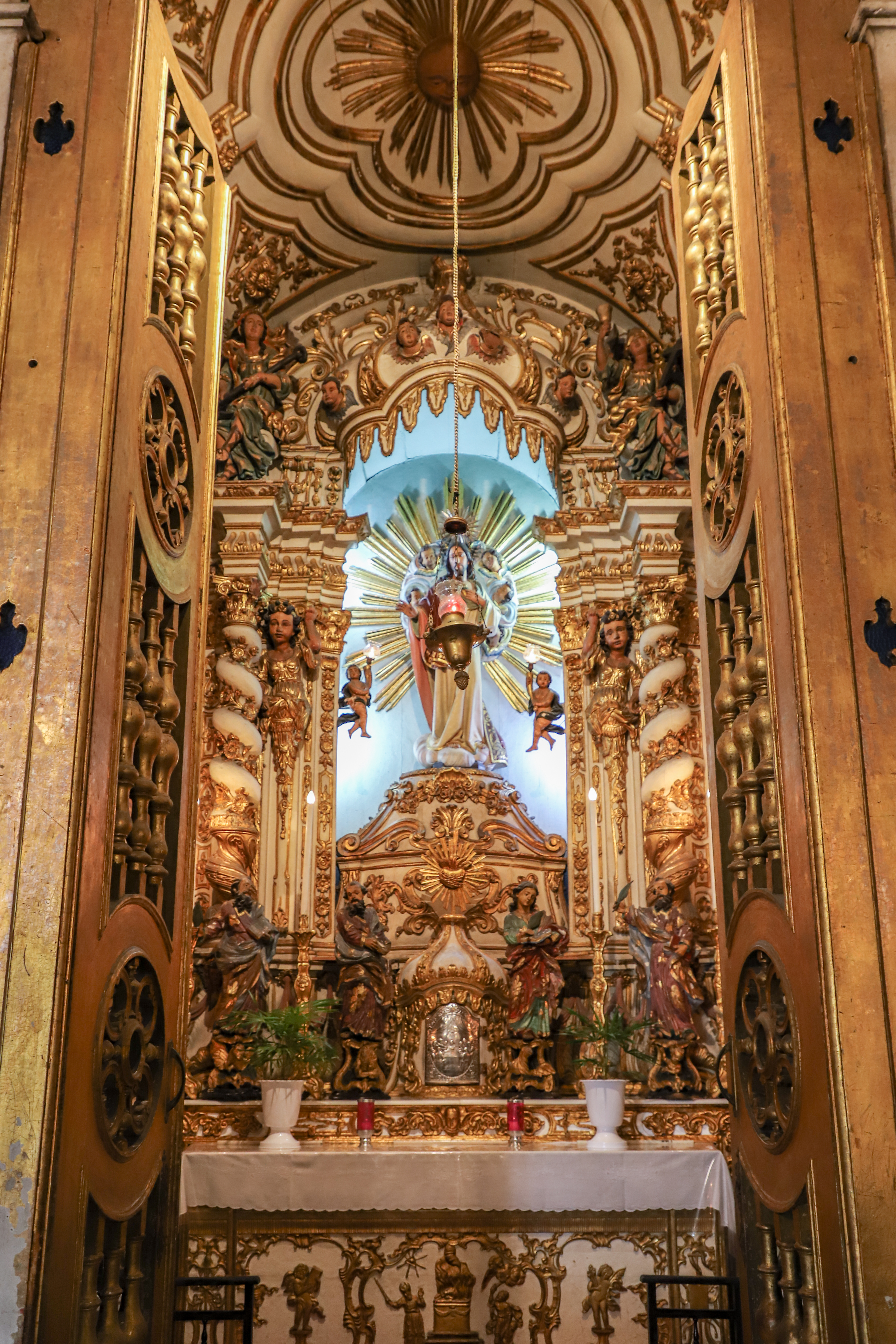 Capela do Santo Cristo (Chapel of the Holy Christ), central image obscured by sanctuary lamp, Nossa Senhora da Conceição da Praia Church (Church of Our Lady of the Conception of Praia), Salvador, Bahia, Brazil.